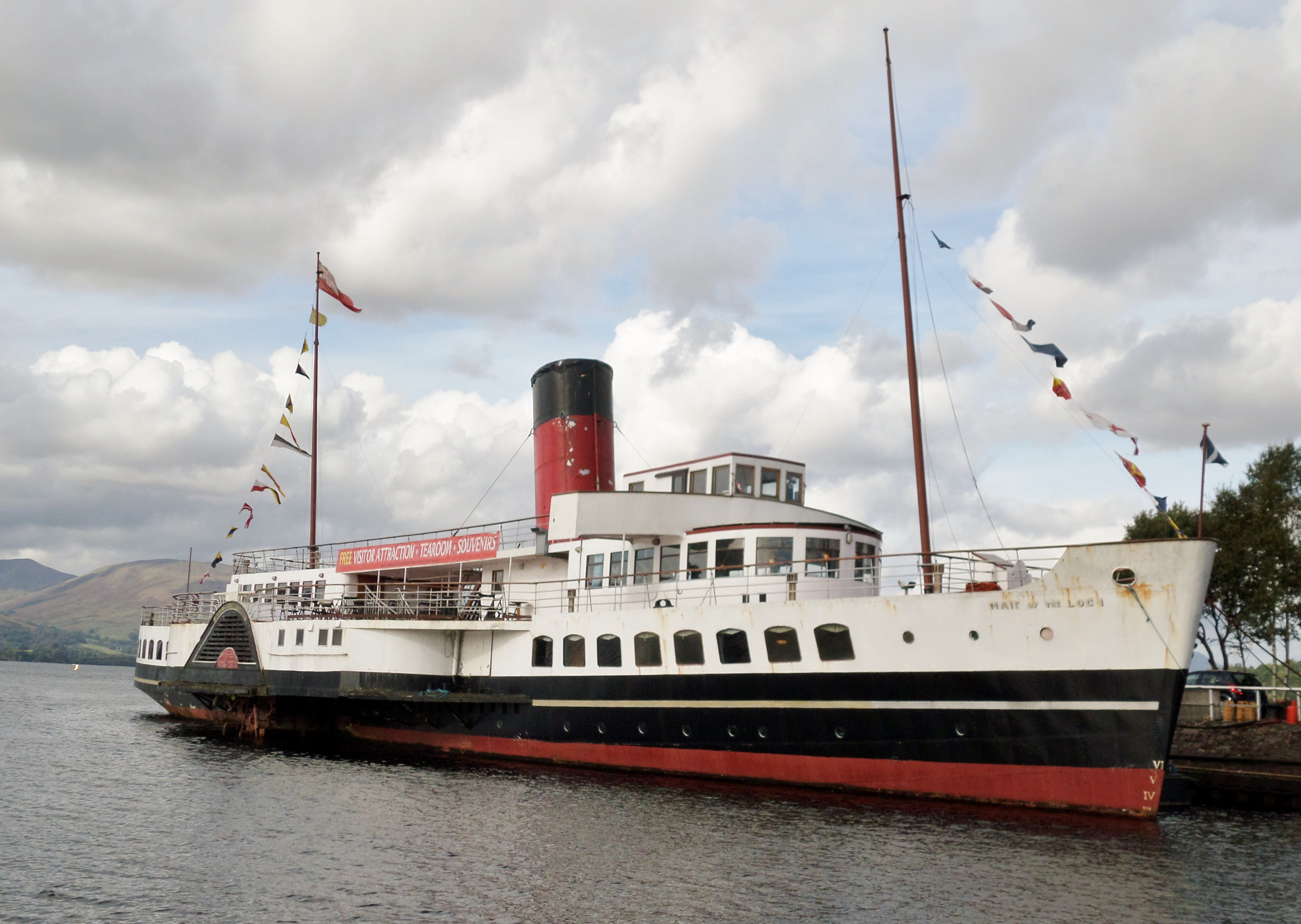 PS Maid of the Loch, Loch Lomond, Balloch Pier, West Dunbartonshire, Scotland. Under restoration.